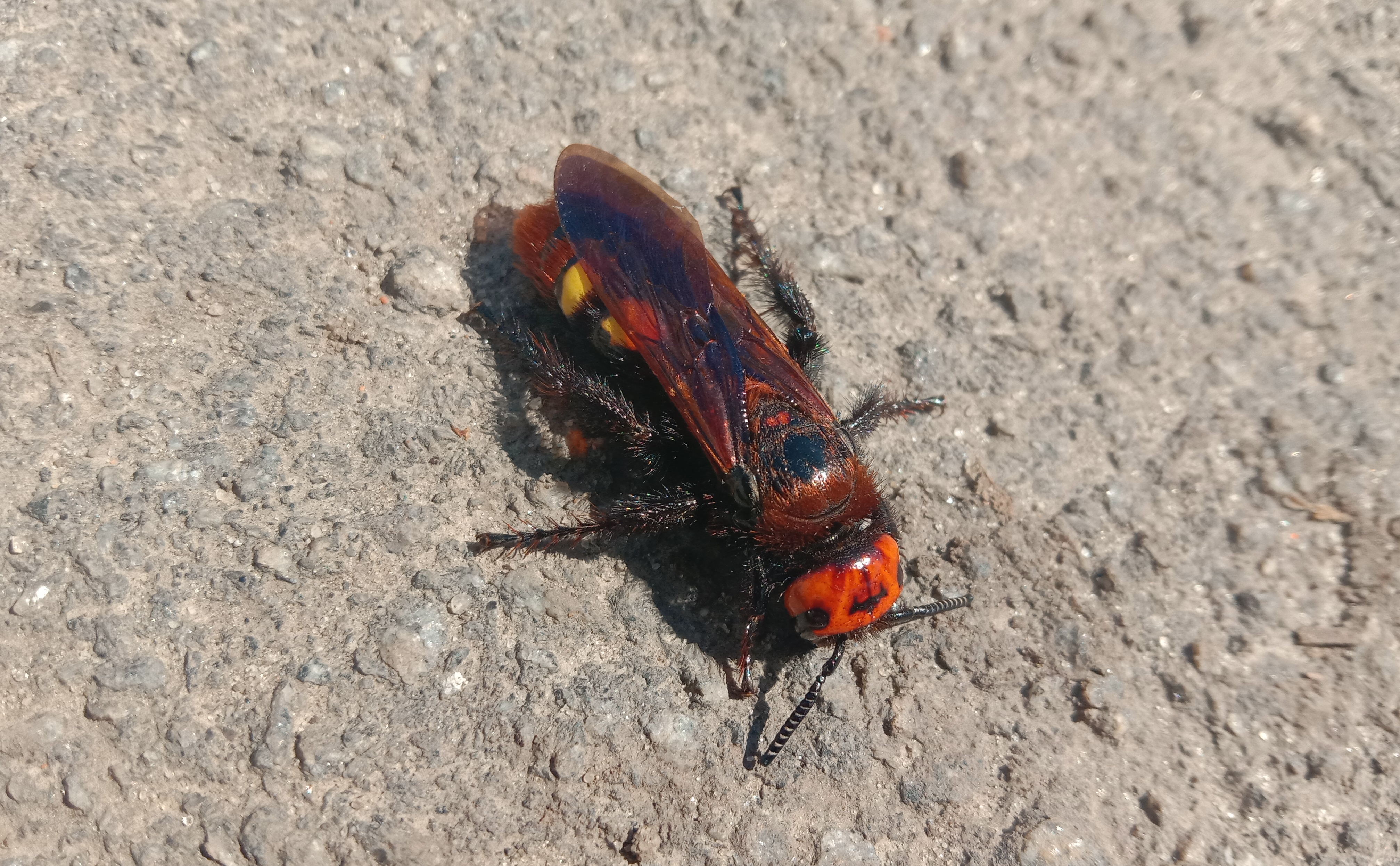 Picture of the Mammoth Wasp (Megascolia maculata) taken in Kharkiv, Ukraine